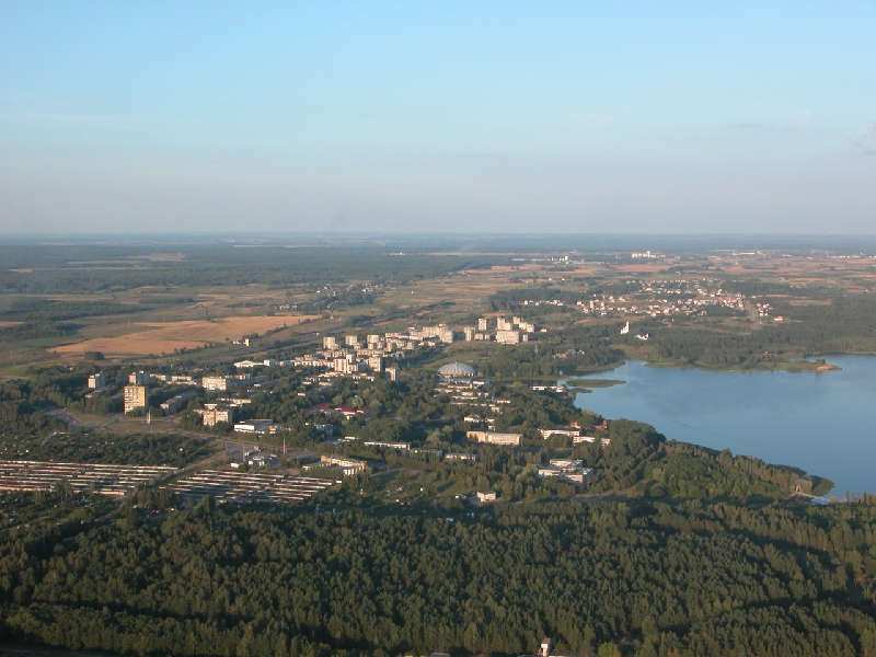 Panorama of Elektrėnai, Lithuania